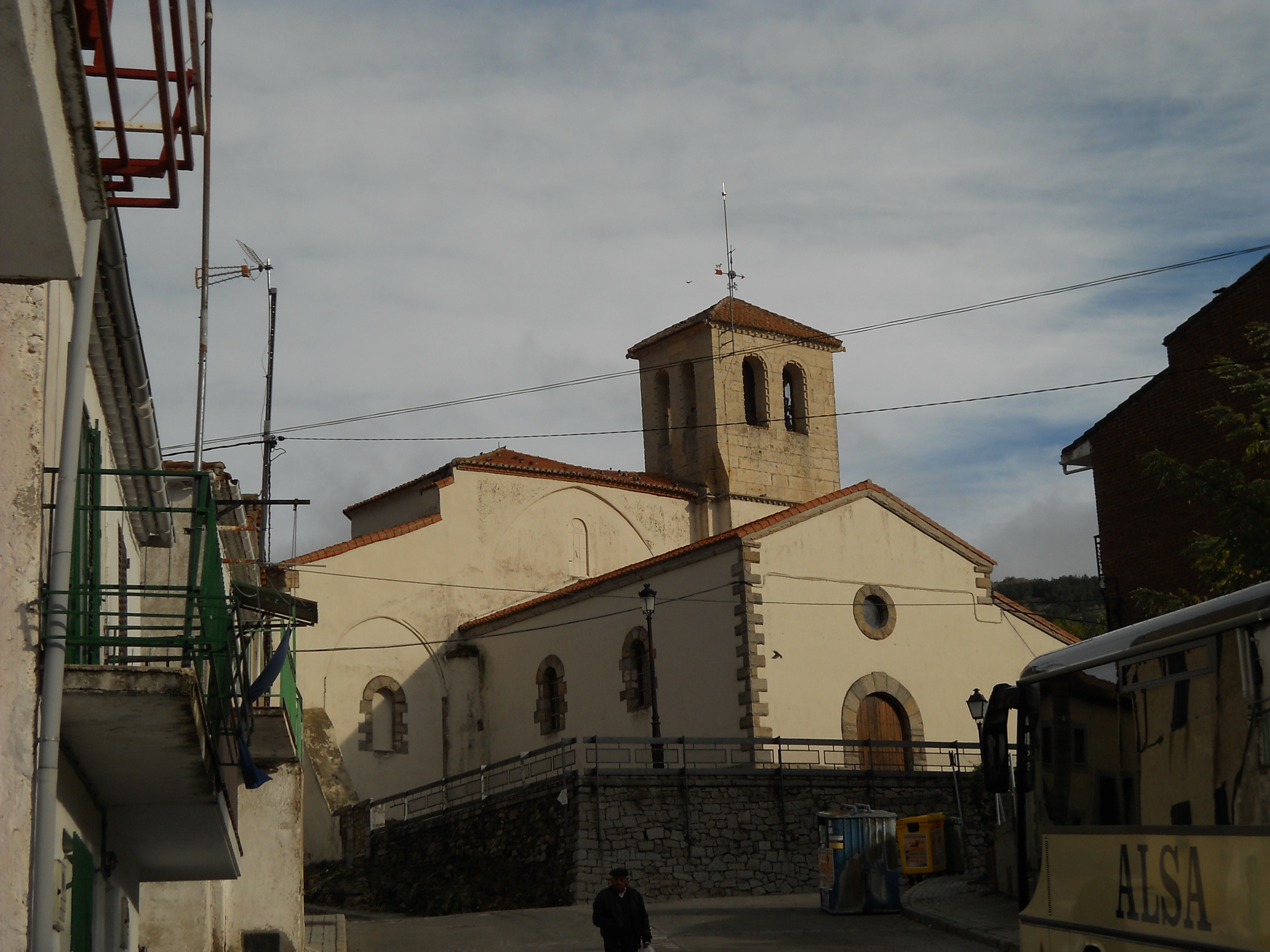 Church of St. Mary of the Castle, Canencia, Madrid, Spain